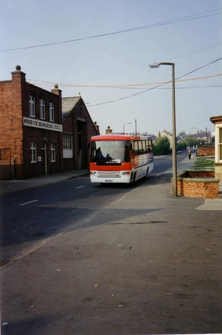 Reeve Burgess Factory, Bridge Street Pilsley